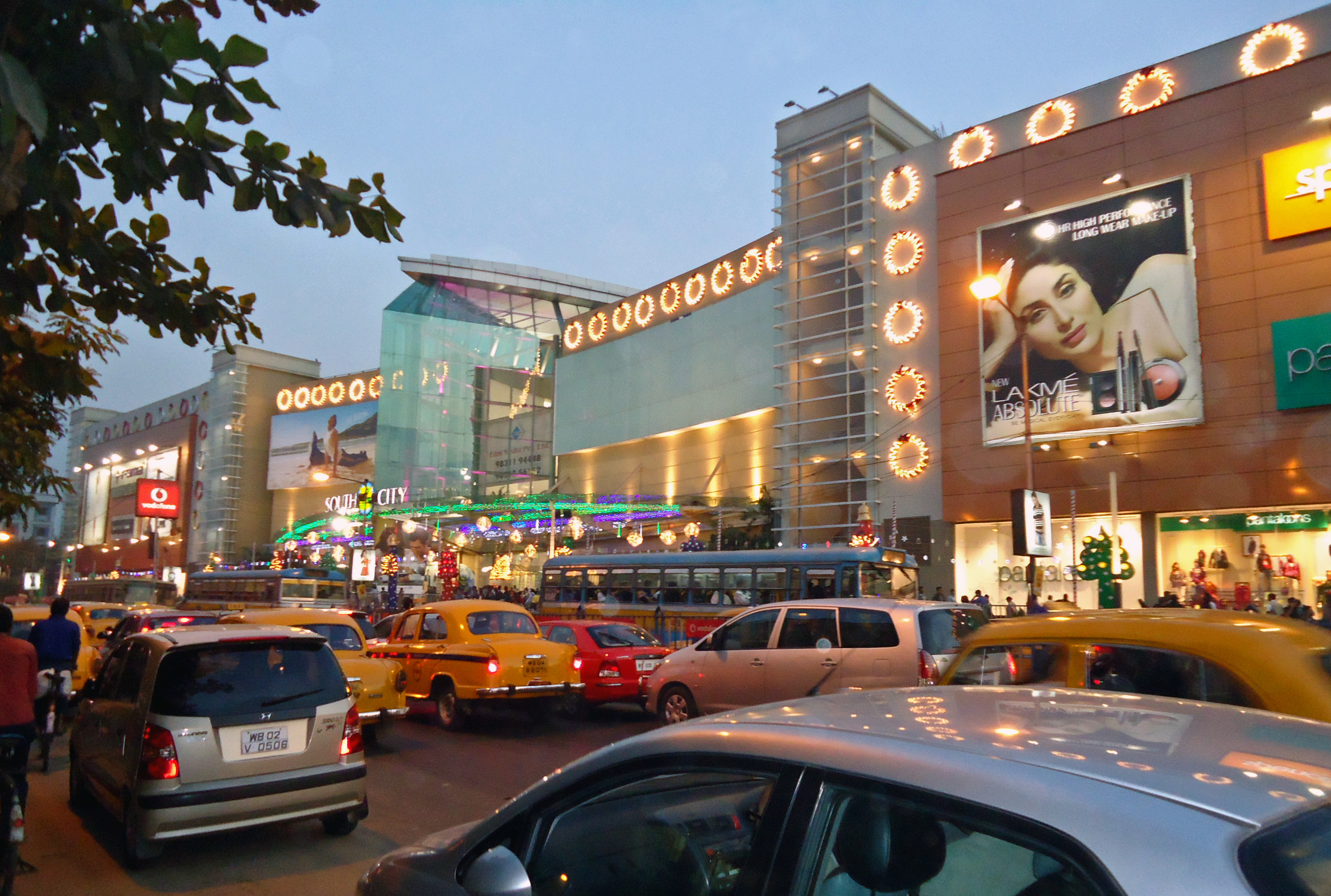 South City Mall 4th Anniversary bash